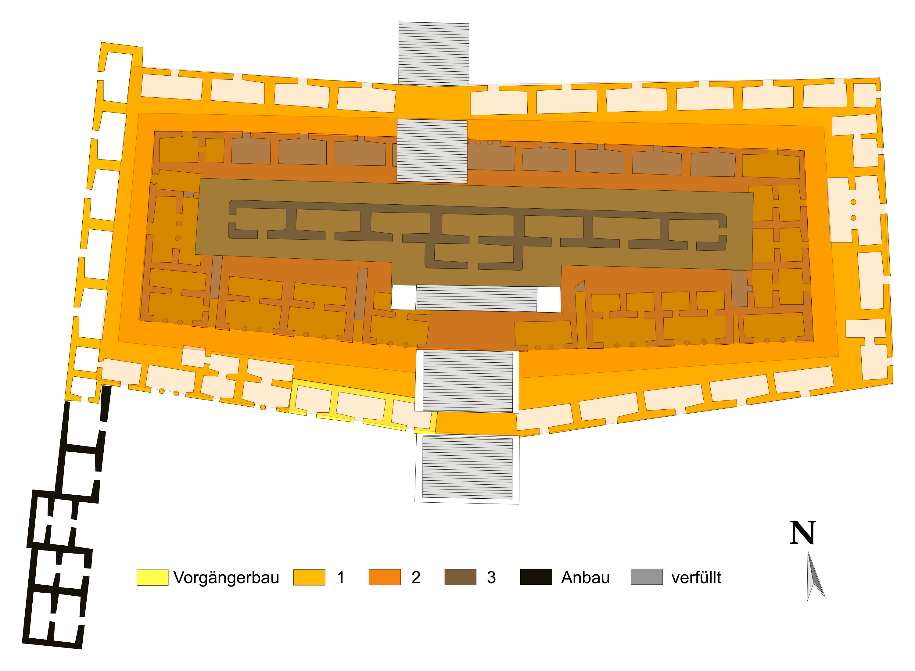 Main palace plan — at Sayil, Yucatan, Mexico.